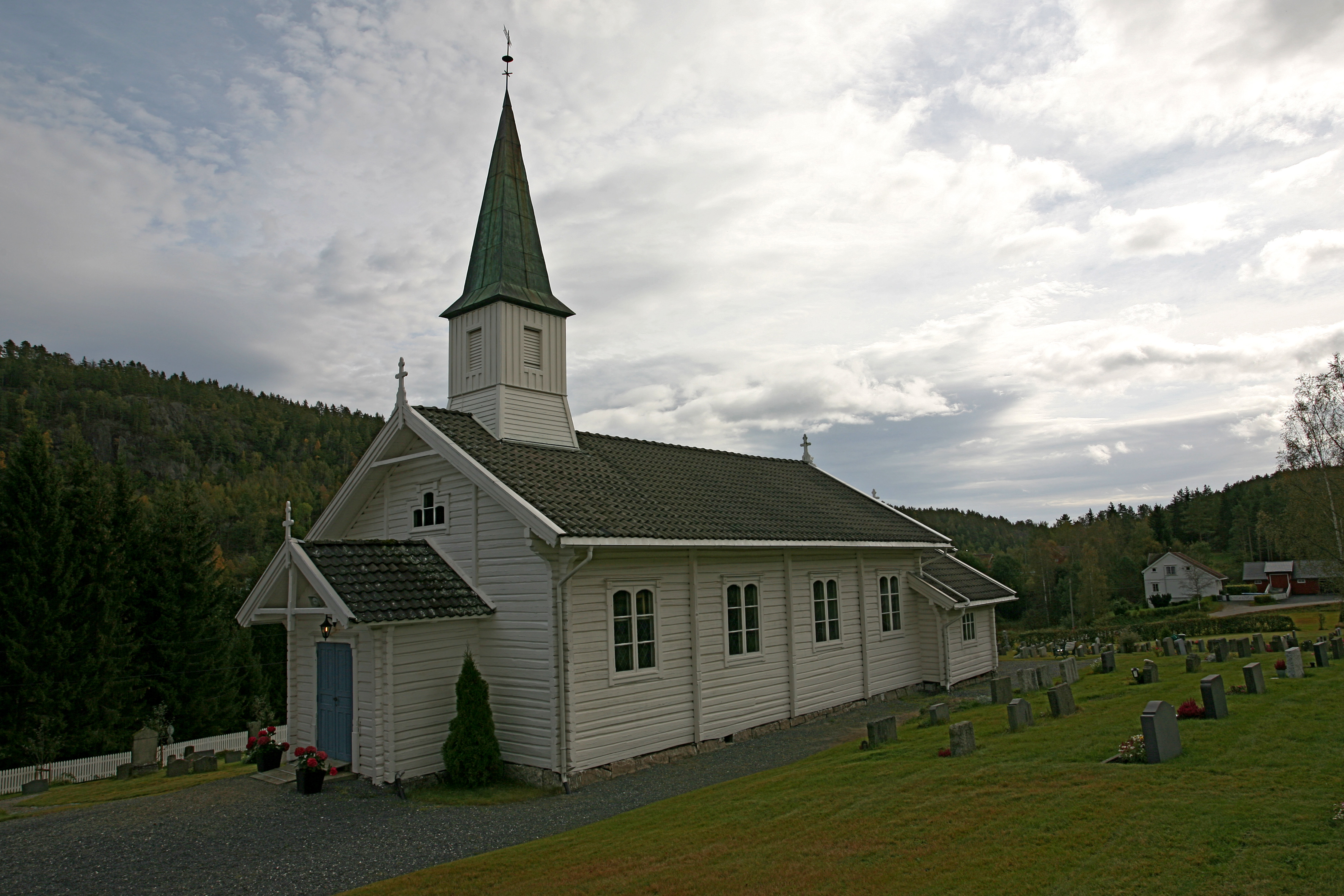 Picture of Kroken kirke (Telemark - Norway)